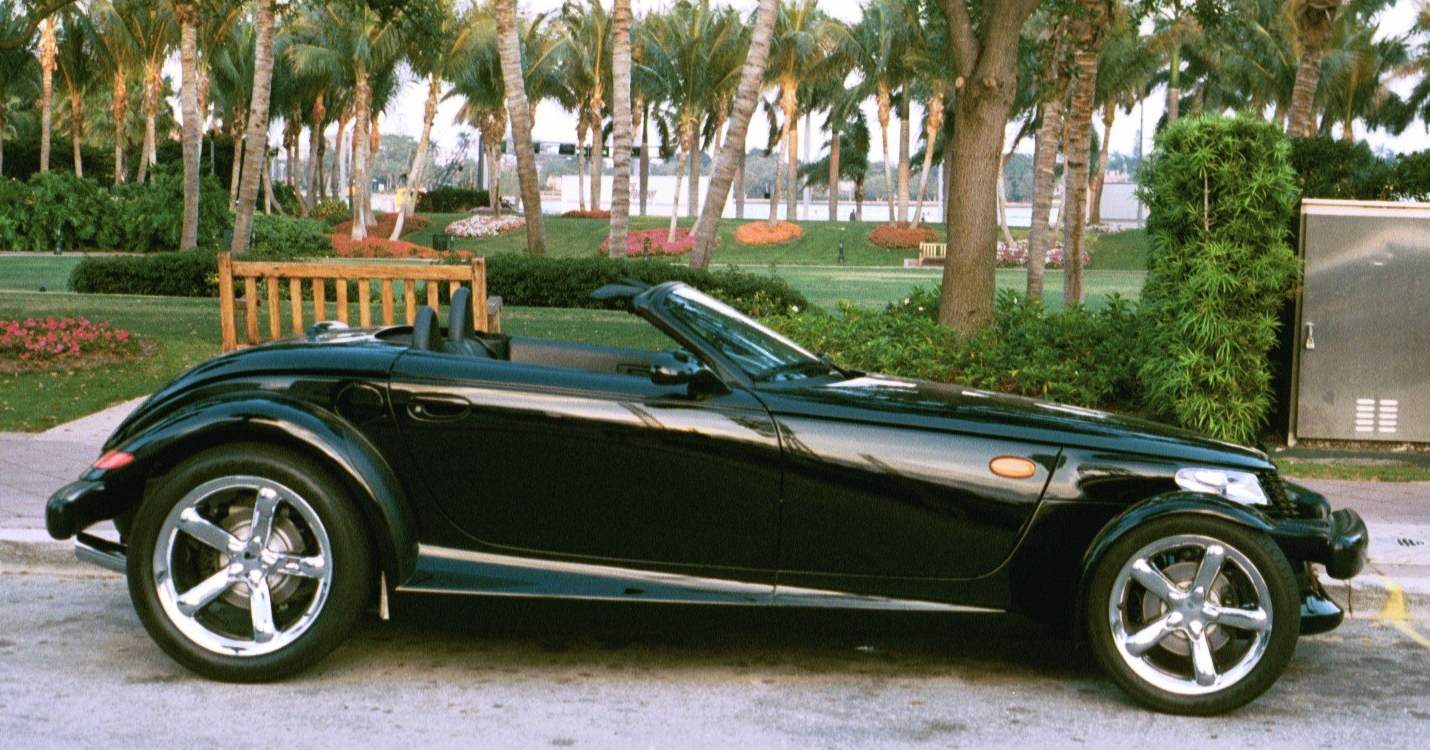 Plymouth Prowler in Florida - black